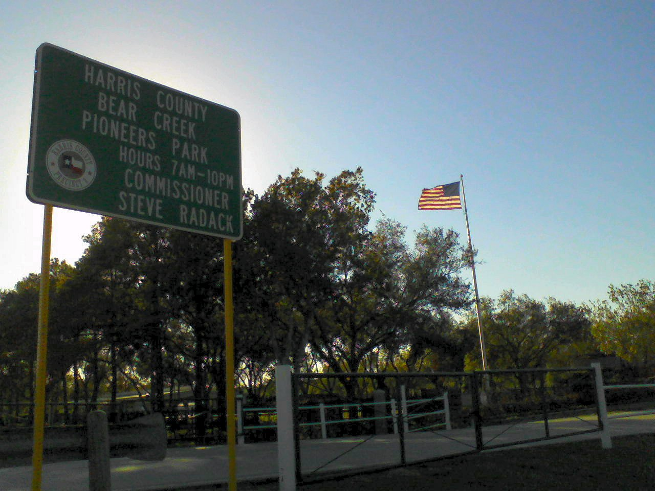 Entrance to Bear Creek Pioneers Park located in Harris County Texas near Houston.